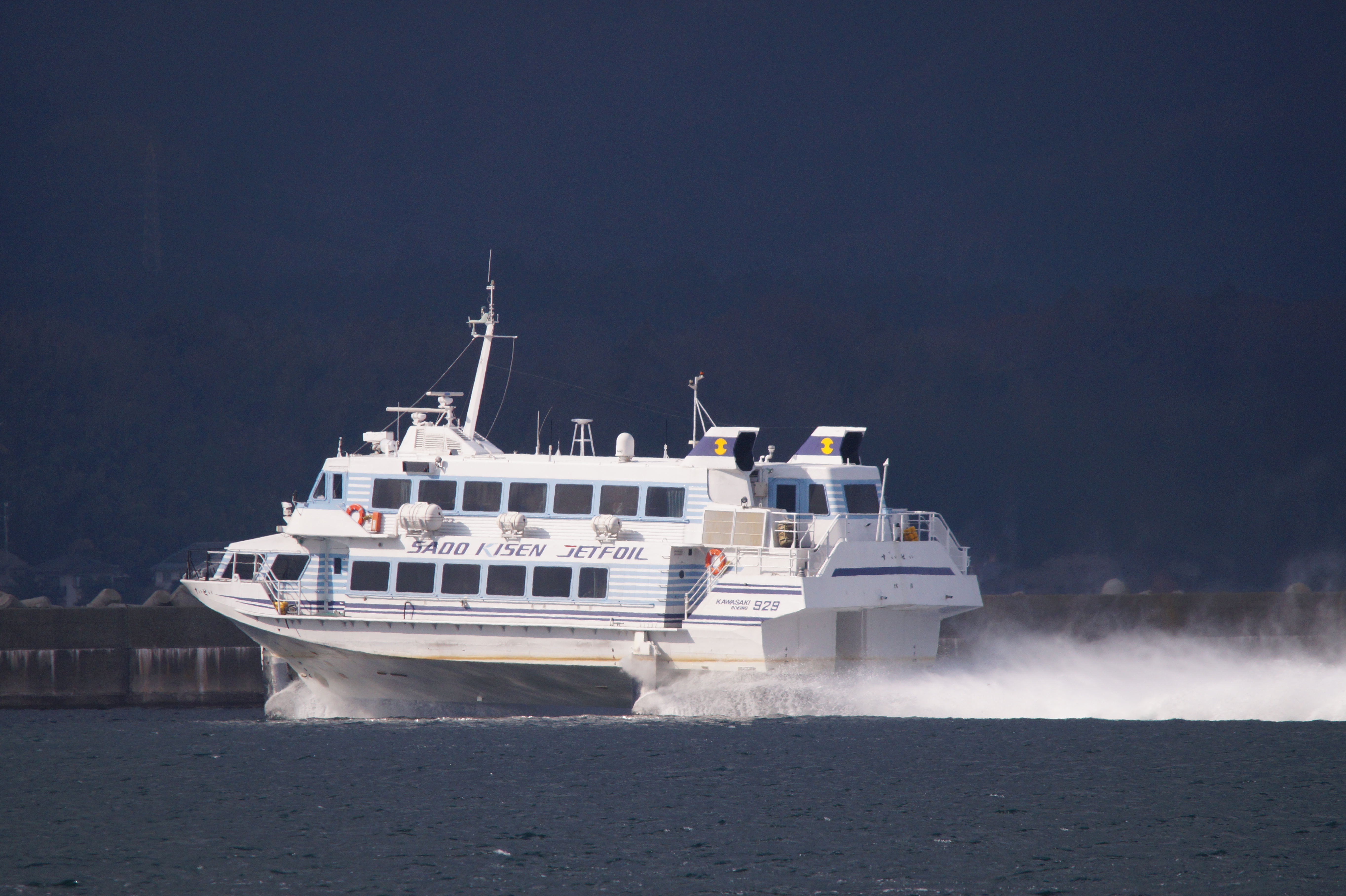 Sado Steam Ship Jetfoil Suisei entering the Port of Ryotsu in Niigata Prefecture, Japan